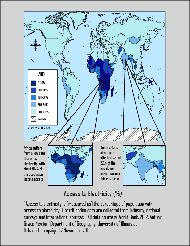 Gradient/ chloropleth map showing world access to electricity by country.